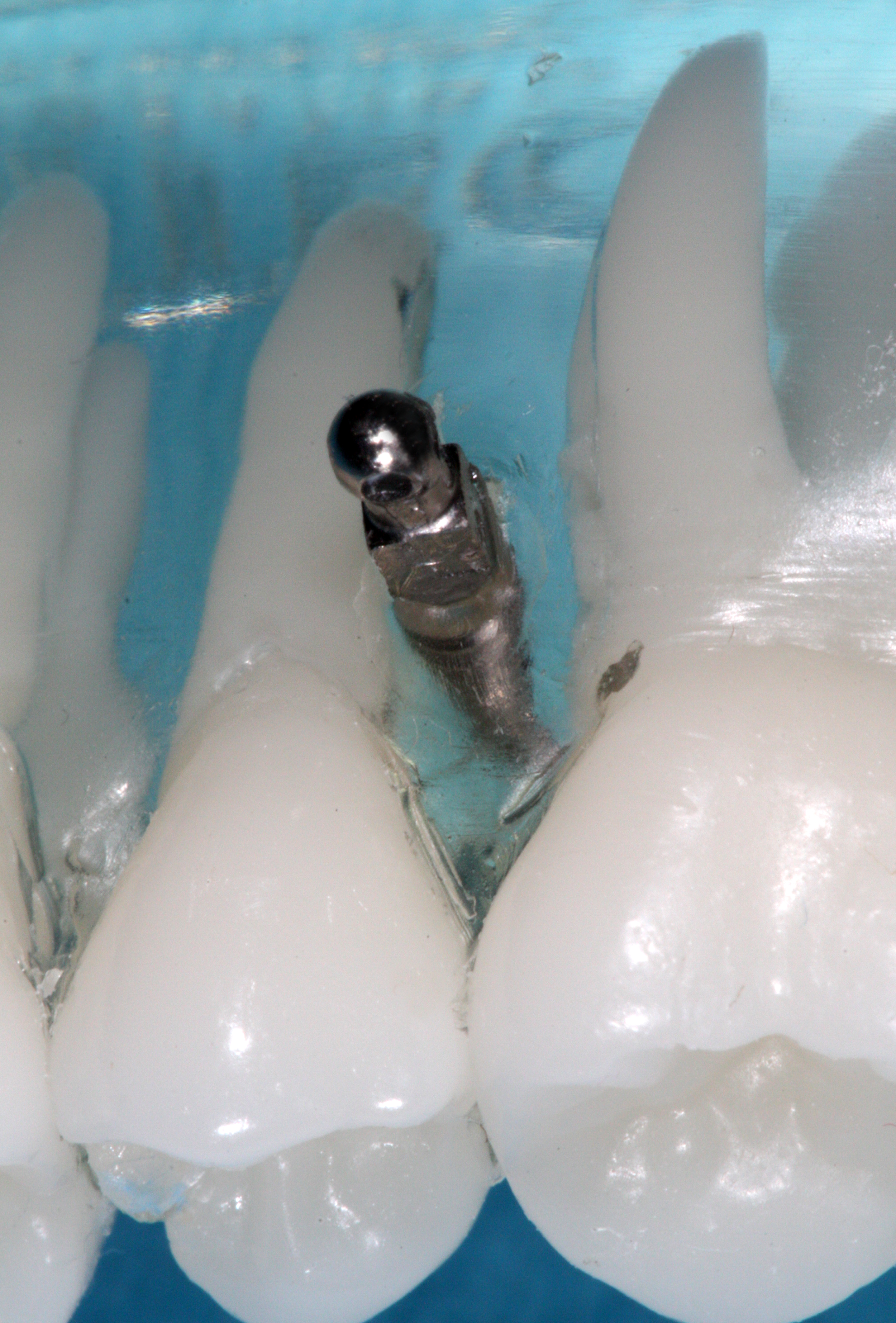 model of a dental implant being used to anchor teeth during orthodontics